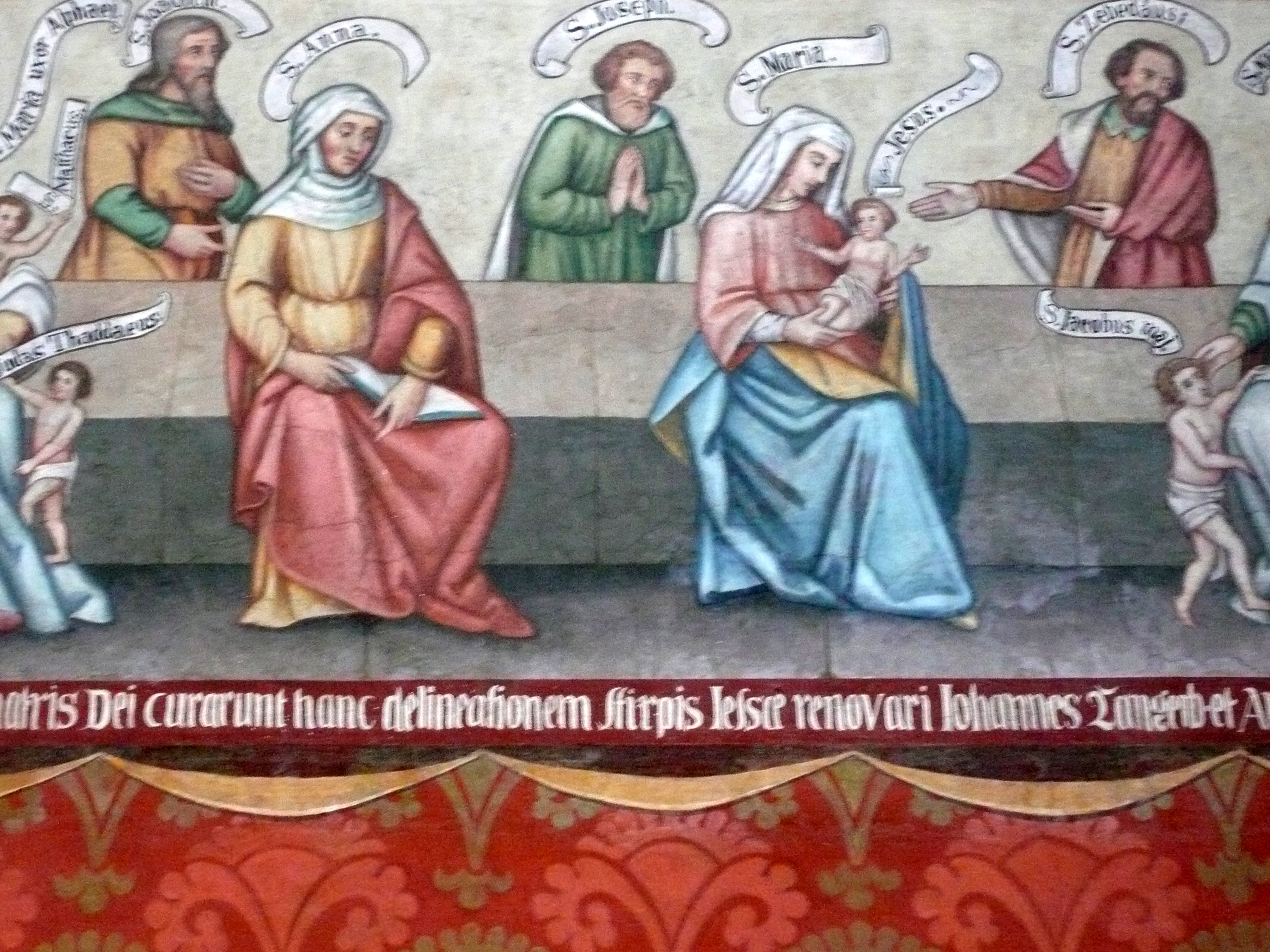 Holy family; Limburger Dom, Germany; detail of a frescoe; 17th century